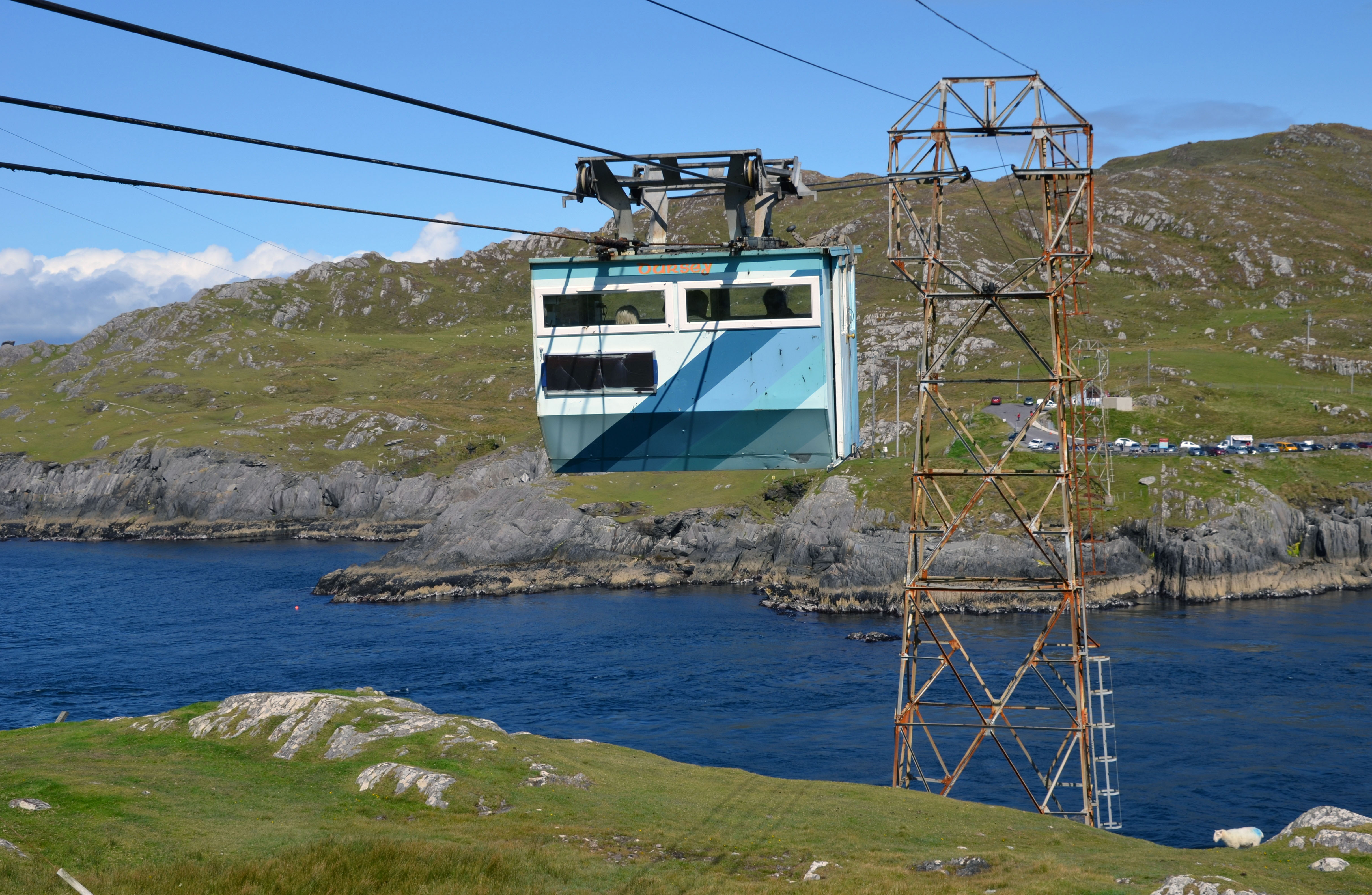 Cable car connecting the Beara Peninsula and Dursey in West Cork, Ireland.